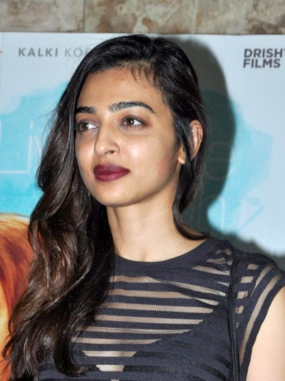 Radhika Apte at the special screening of 'Waiting'